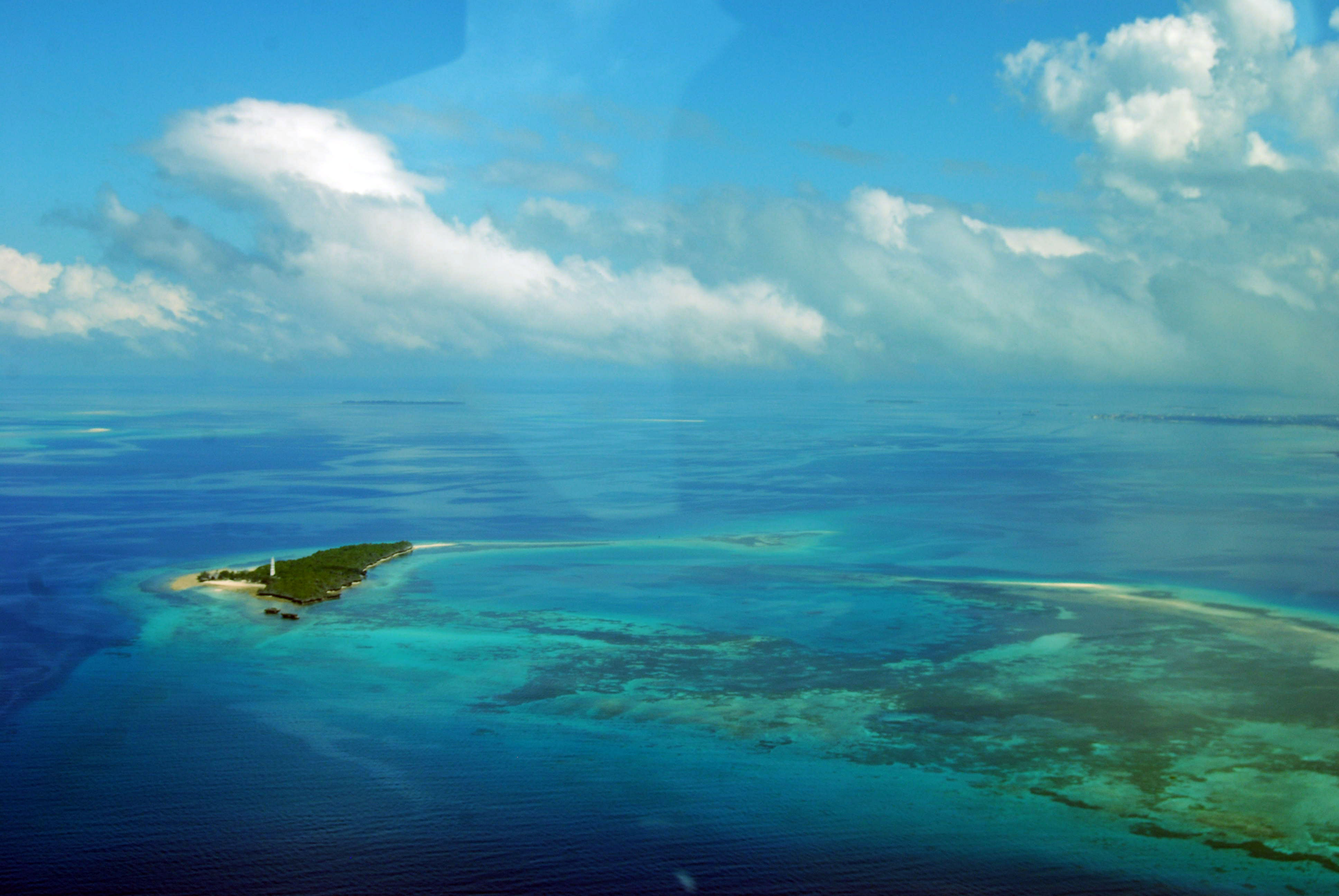 Chumbe Island — an atoll of the Zanzibar Archipelago, in the Western Indian Ocean. Credits You are free to use this image providing you credit Explorer Travel with a link back to the following page